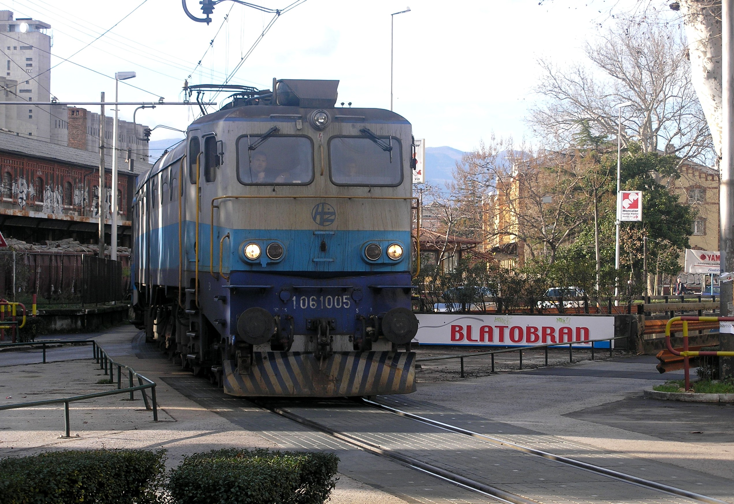 A HŽ 1061 series locomotive in Rijeka, Croatia